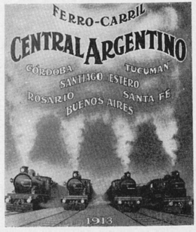 Advertisement for the "Ferrocarril Central Argentino" (Argentine Central Railway) of 1913.